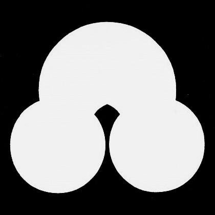 Crest of Hineno clan